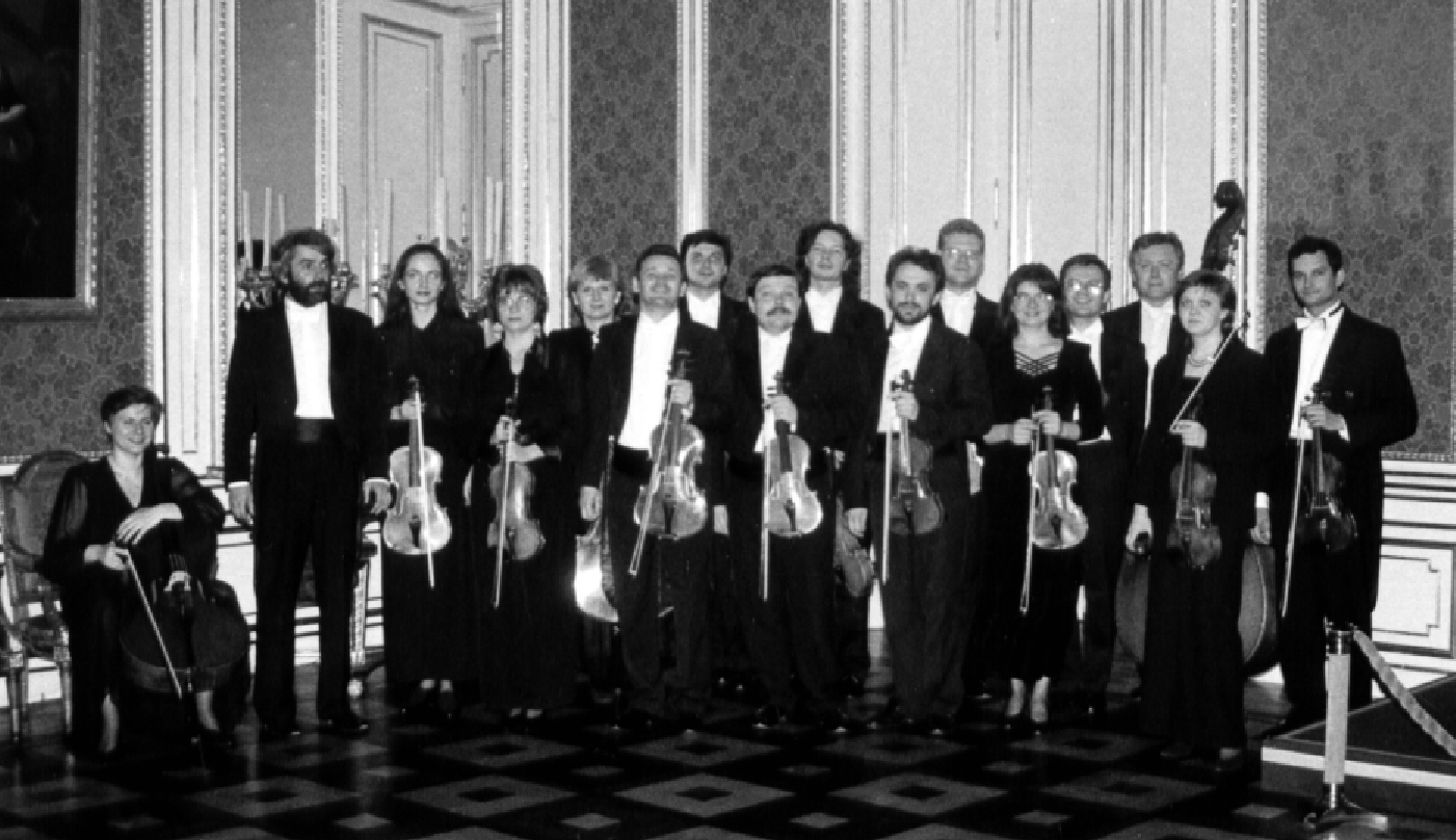 Orkiestra Kameralna Wratislavia, 1996